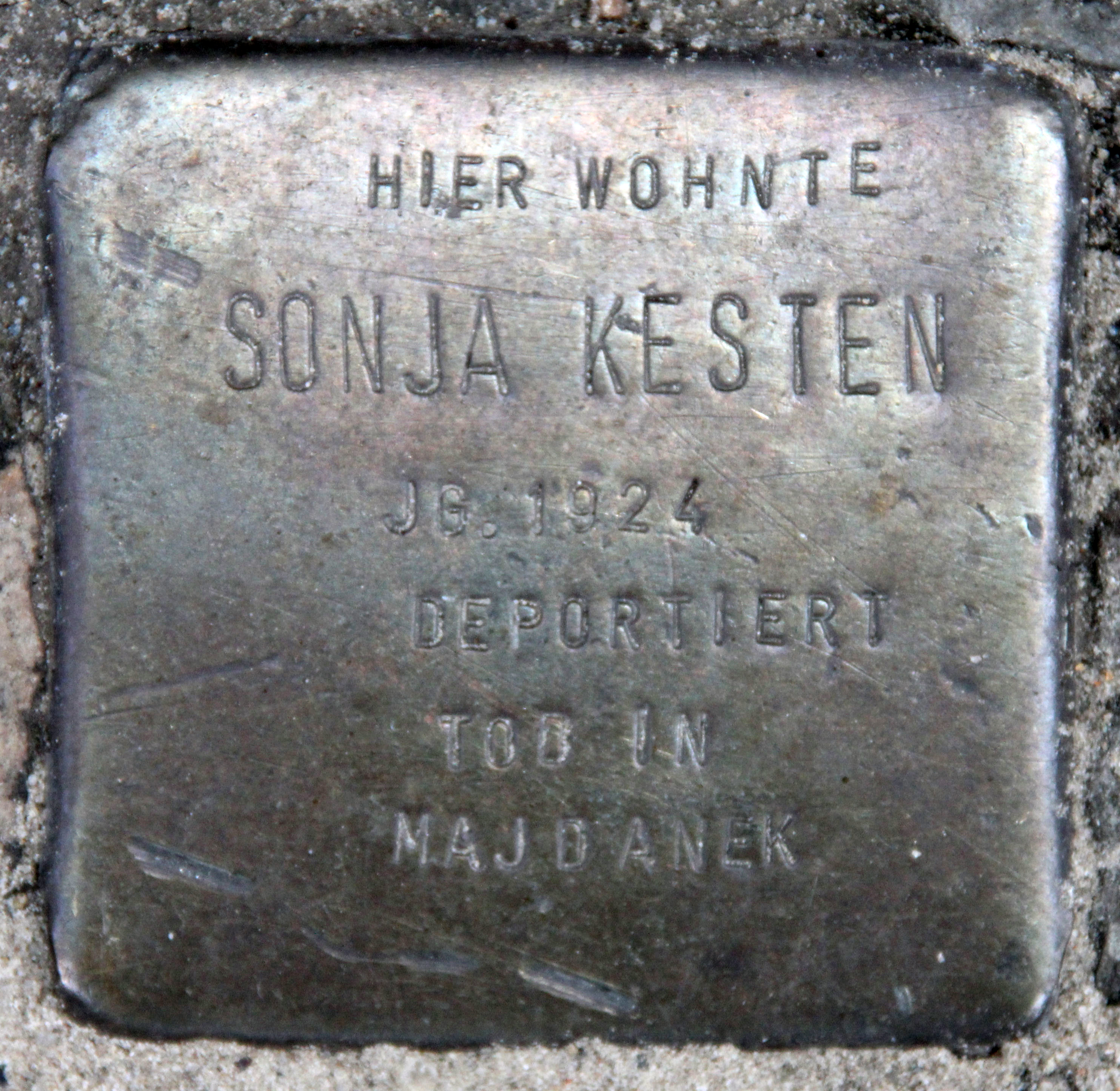 "Stolperstein" (stumbling block), Sonja Kesten, Fichtestraße 29, Berlin-Kreuzberg, Germany